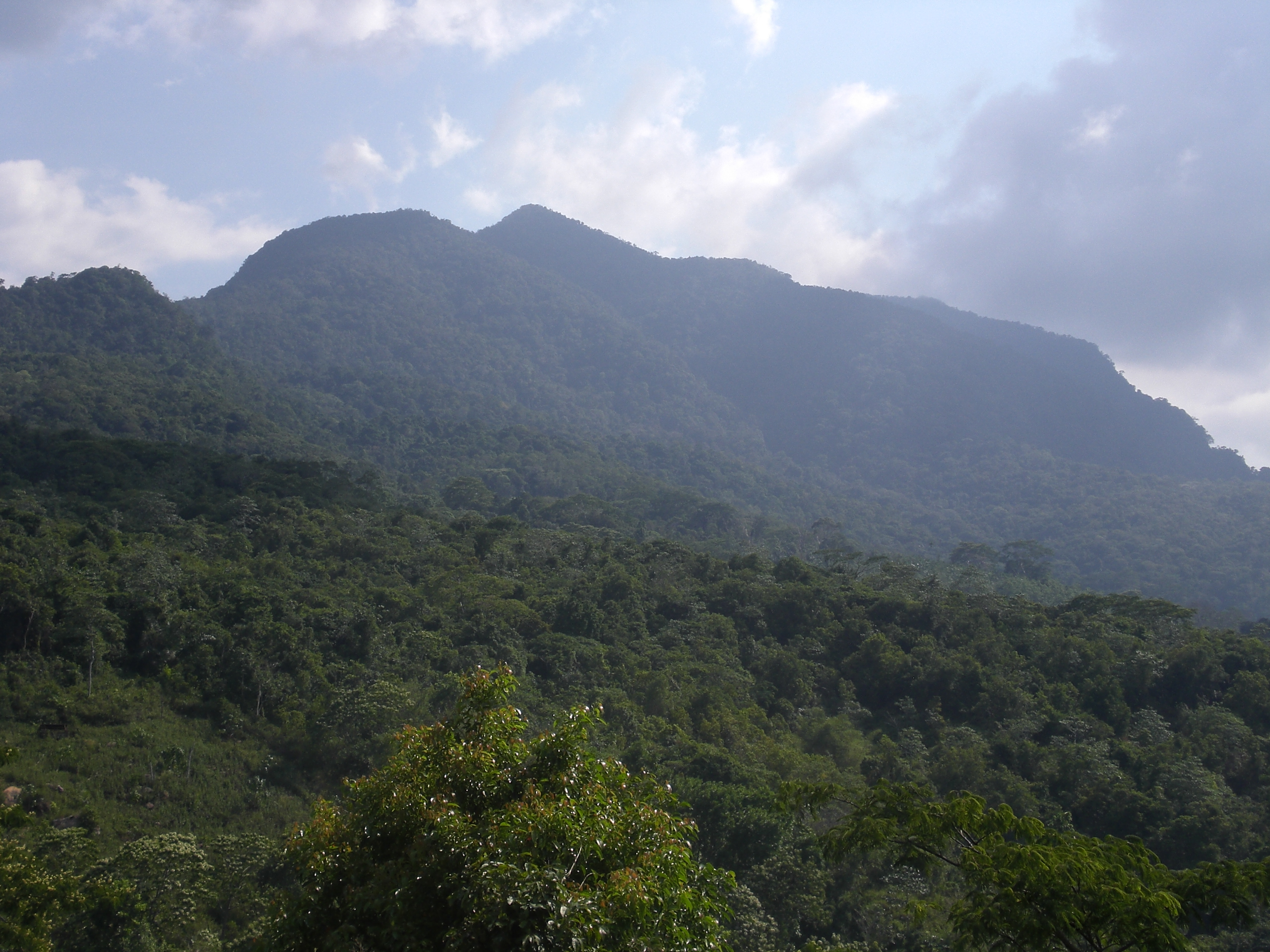 Mount Mbeliling, Flores, Indonesia, Indonesia